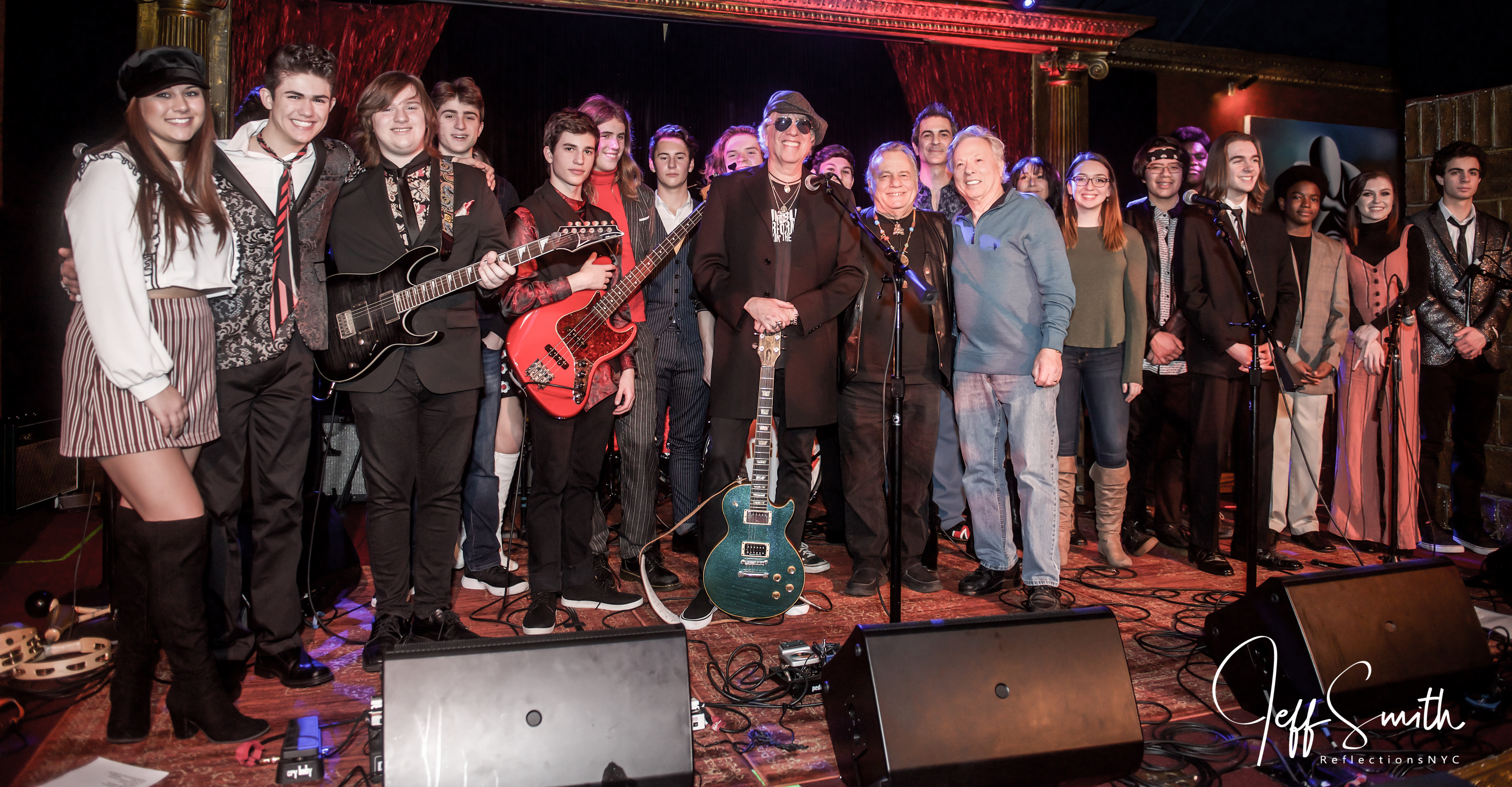 Eddie Brigati with Ricky Byrd at the Cutting Room for the tribute to Steve Marriott. Photo Jeff Smith of ReflectionsNYC